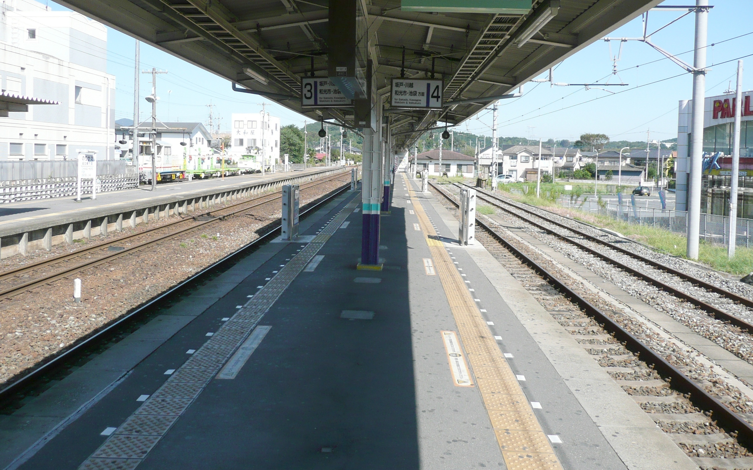 The Tobu Ogose Line platforms at Ogose Station in Saitama